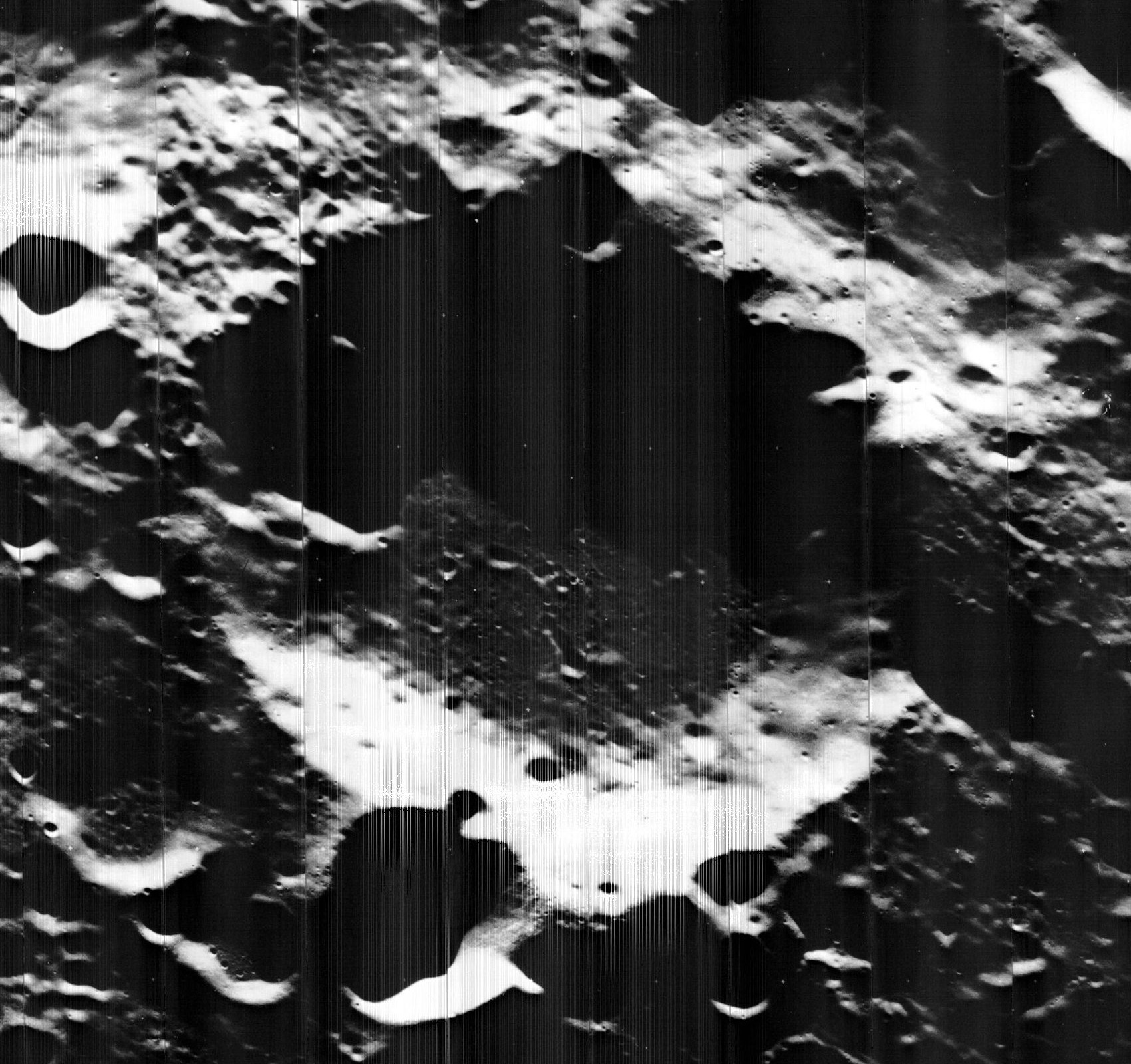 Oblique view of Hippocrates, on the far side of the moon, facing west.